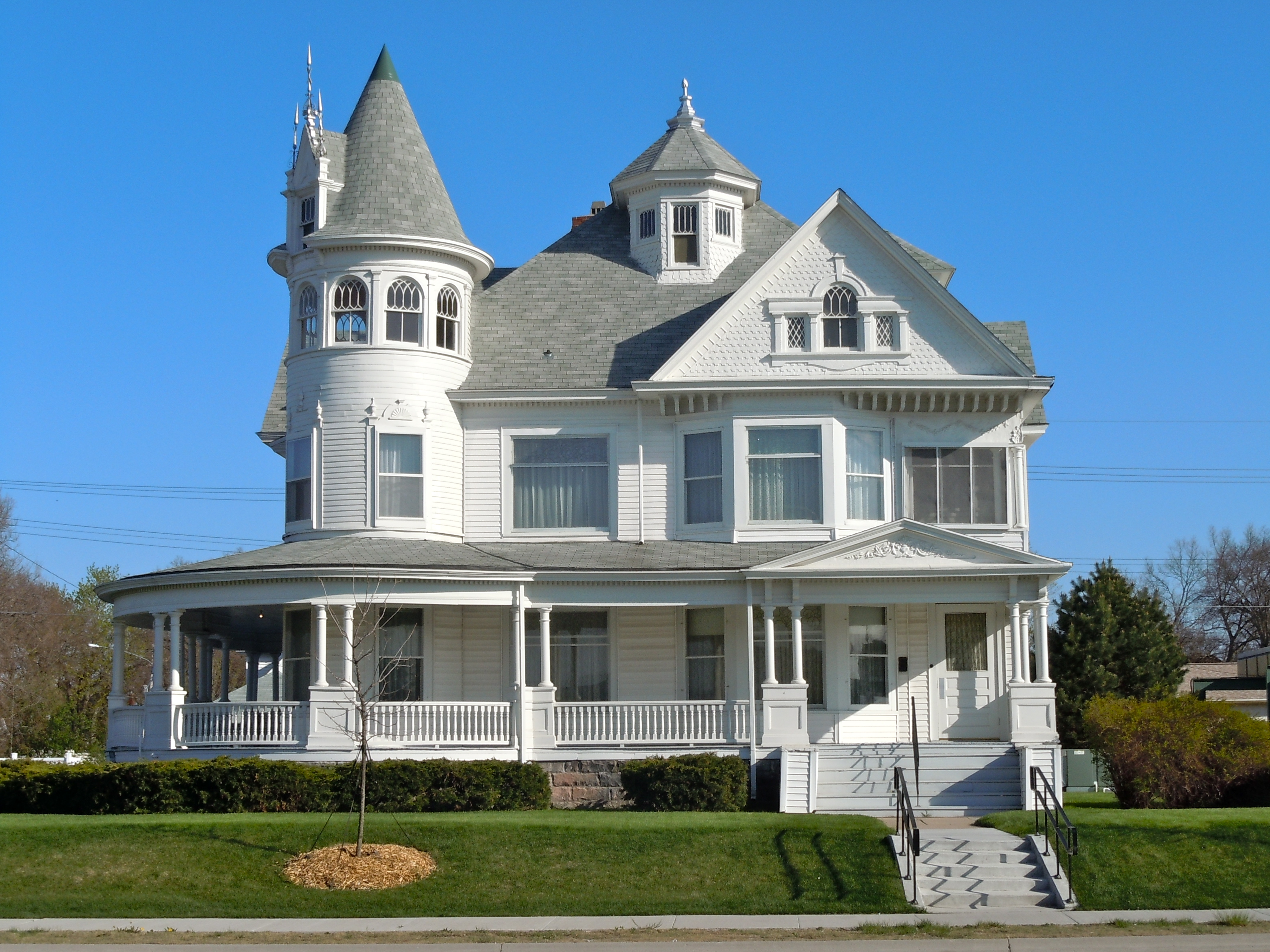 Andrew M. Hargis House on the NRHP since June 9, 1978. At 1109 W. 2nd St., Grand Island, Hall County, Nebraska. Now houses the Women's Club of Grand Island